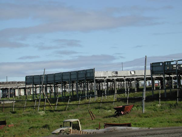 Fox farm (now closed), Lorino